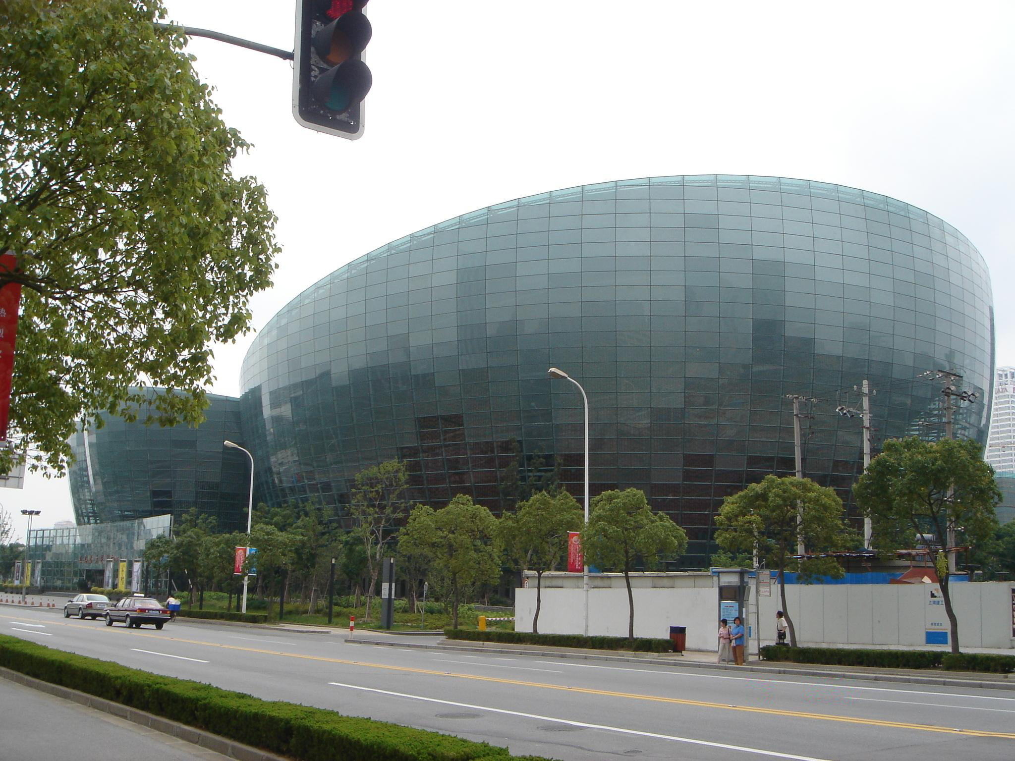 Shanghai Oriental Art Center